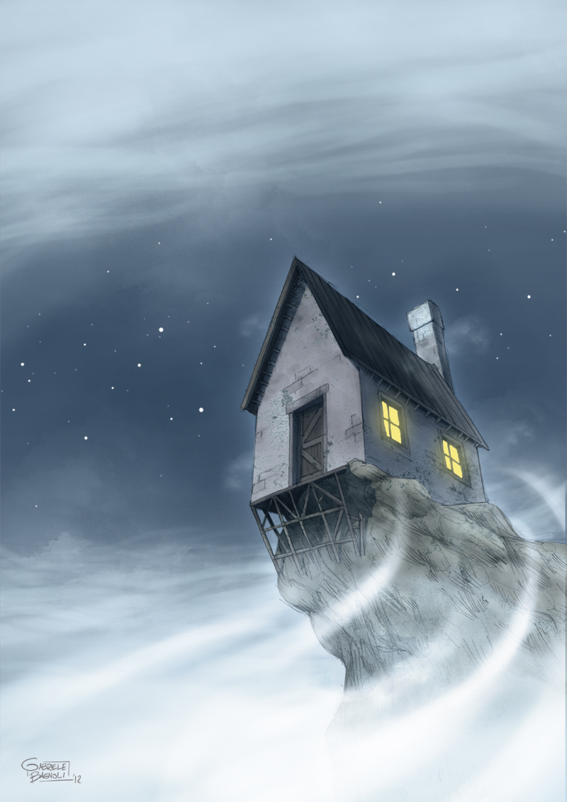 Gabriele Bagnoli's artwork based on H. P. Lovecraft's short story "The Strange High House in the Mist".